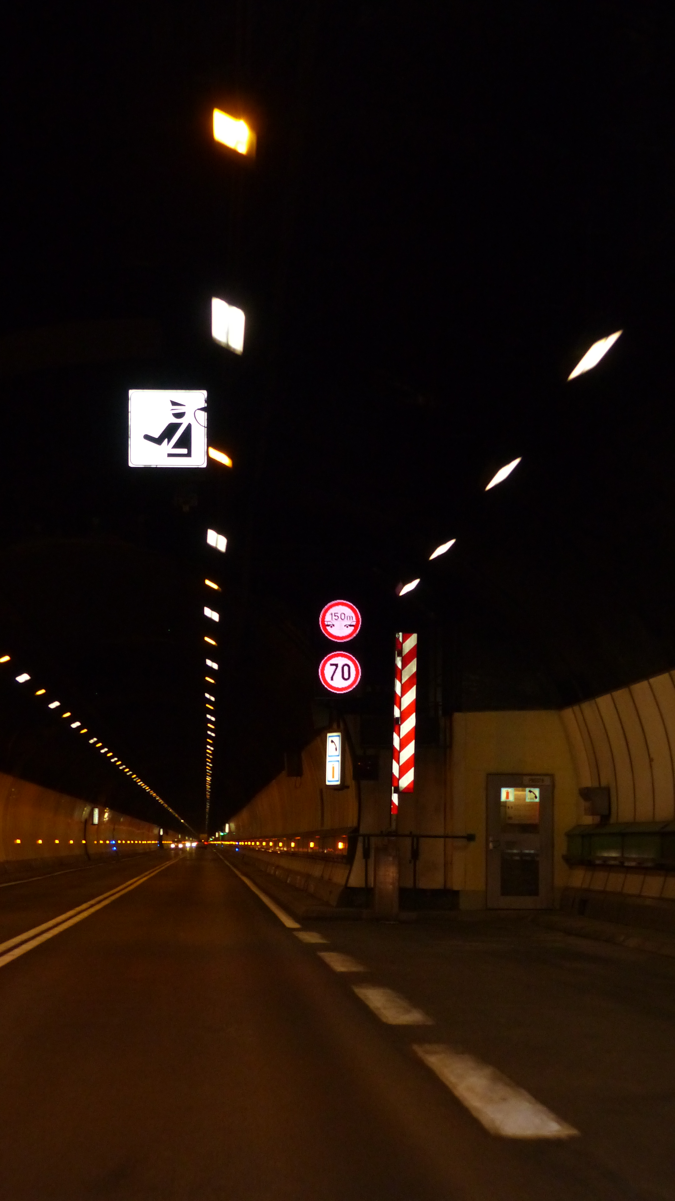 Emergency stop location in the Mont-Blanc tunnel.